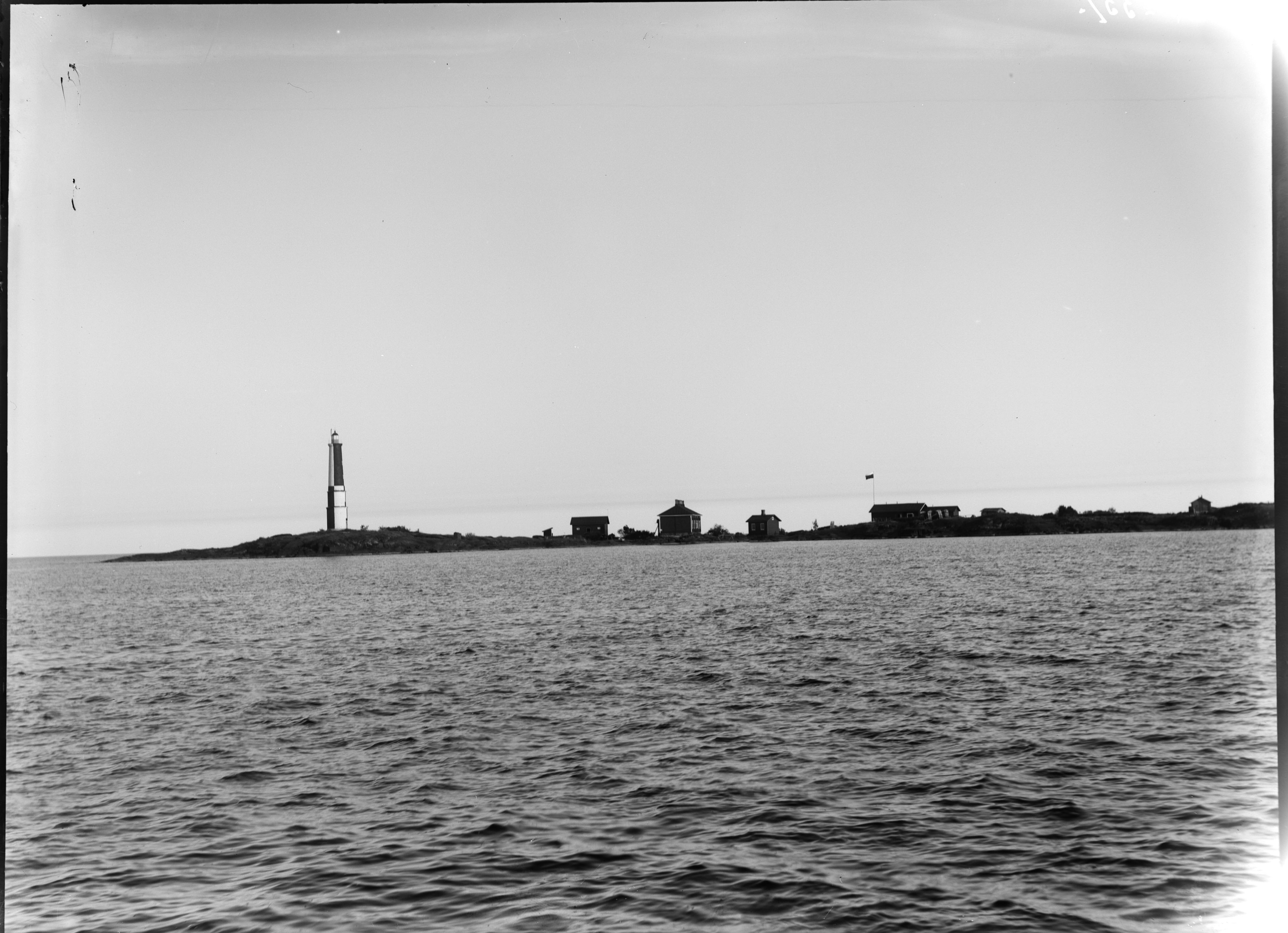 Records creator: Luotsi- ja majakkalaitos, \nArchive/Fond: Luotsi- ja majakkalaitoksen arkisto, \nSeries: Majakat, \nUnit: Uaba:1081 Hanhipaasi; majakkasaari jÃ¤rveltÃ¤ n. 400 m pÃ¤Ã¤stÃ¤ kuvattuna, \nInclusive dates: 1901 - 1901\n